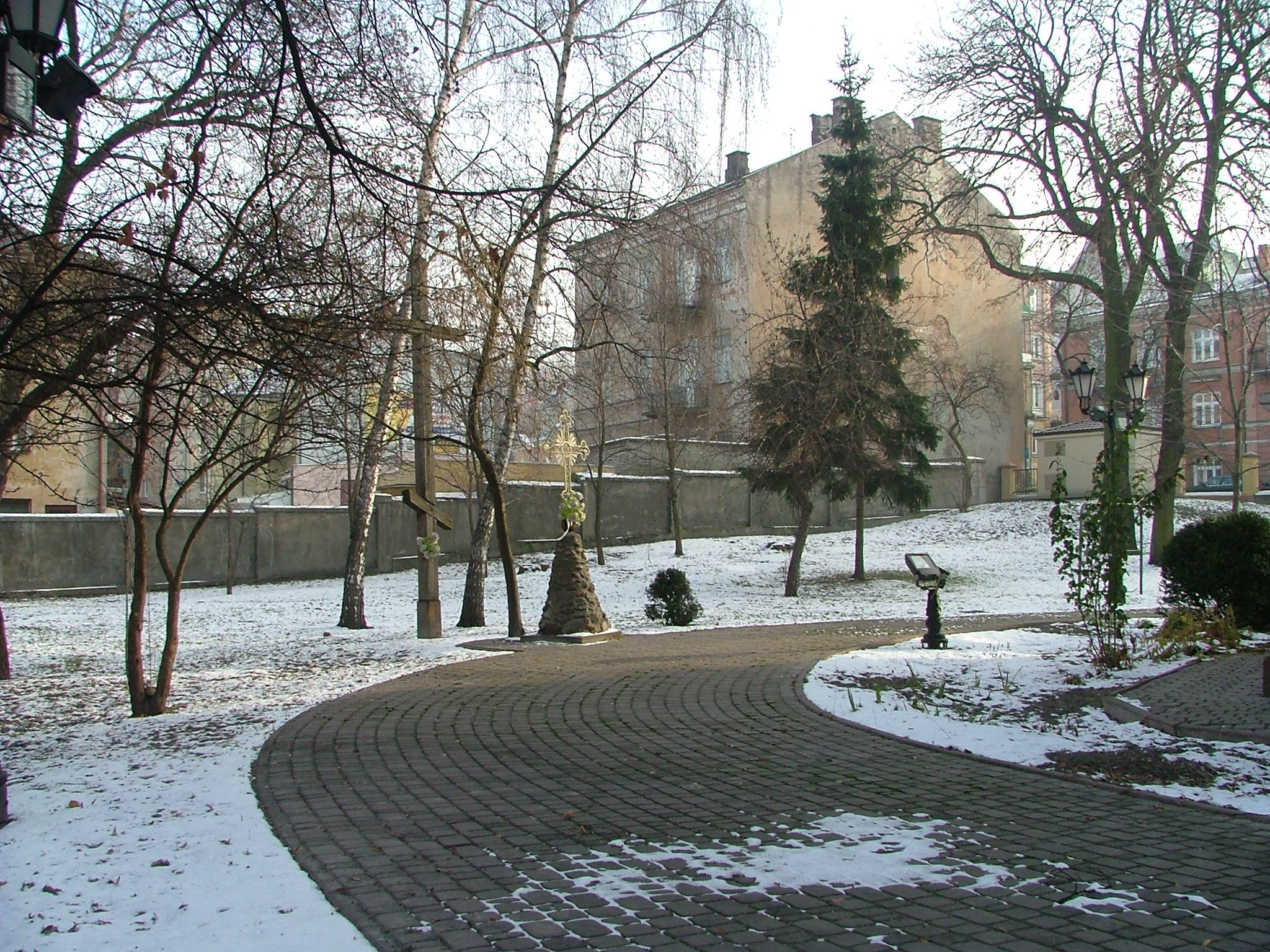 Poland, Orthodox Church in Chełm, Kopernika Street